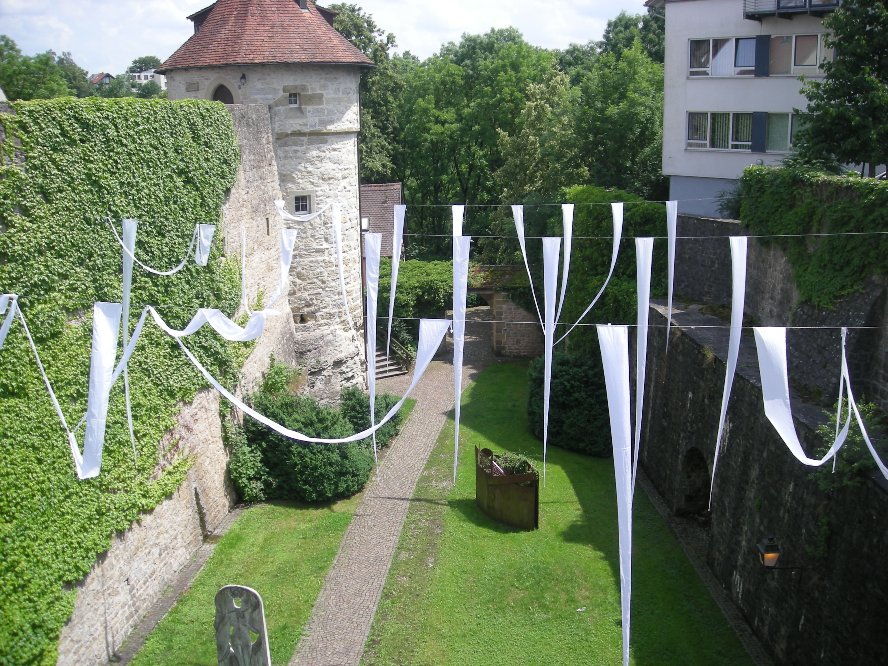 The walls of the Altstadt in Vellberg, Baden-Württemberg (Germany).